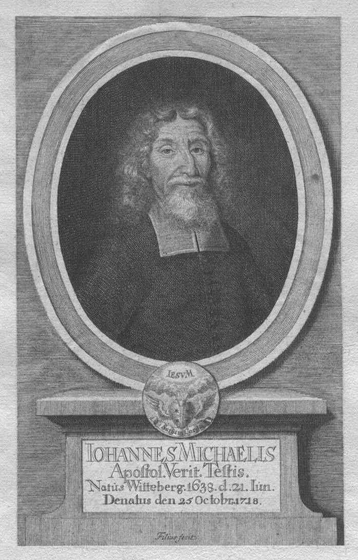 Portrait of Johann Michael, copper engraving 148x92 mm